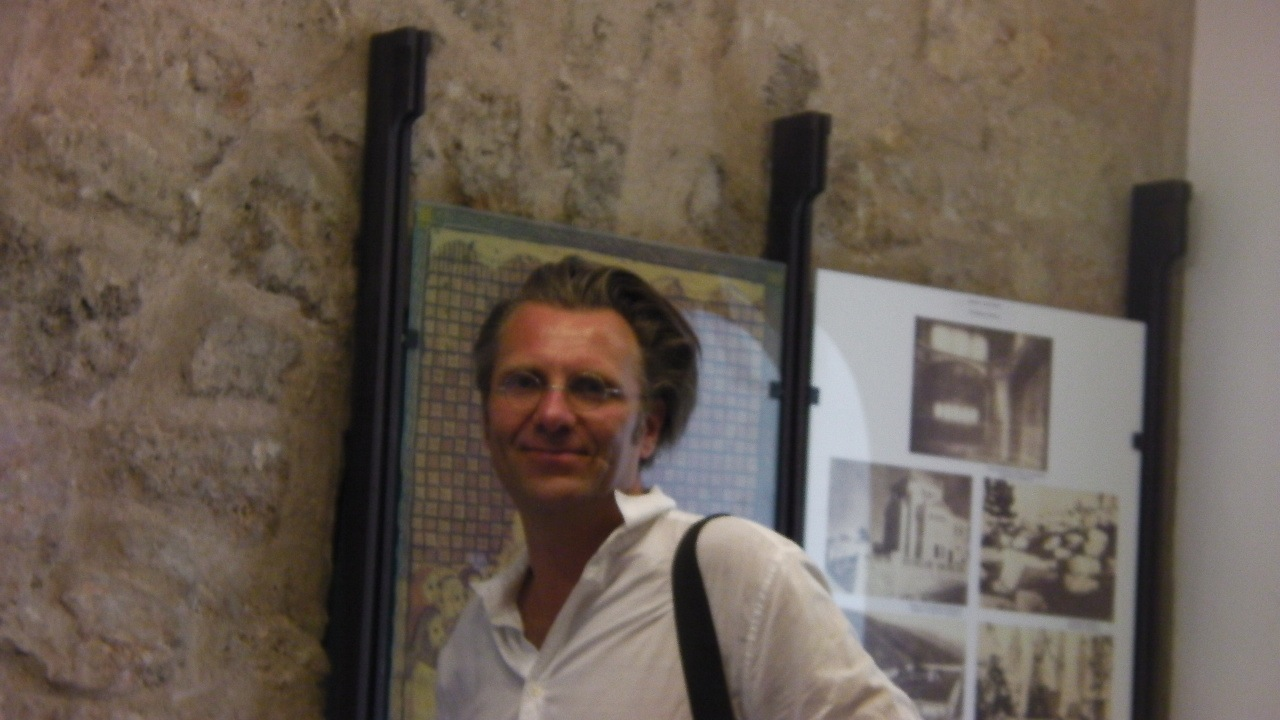 Andreas L. Hofbauer (2014)